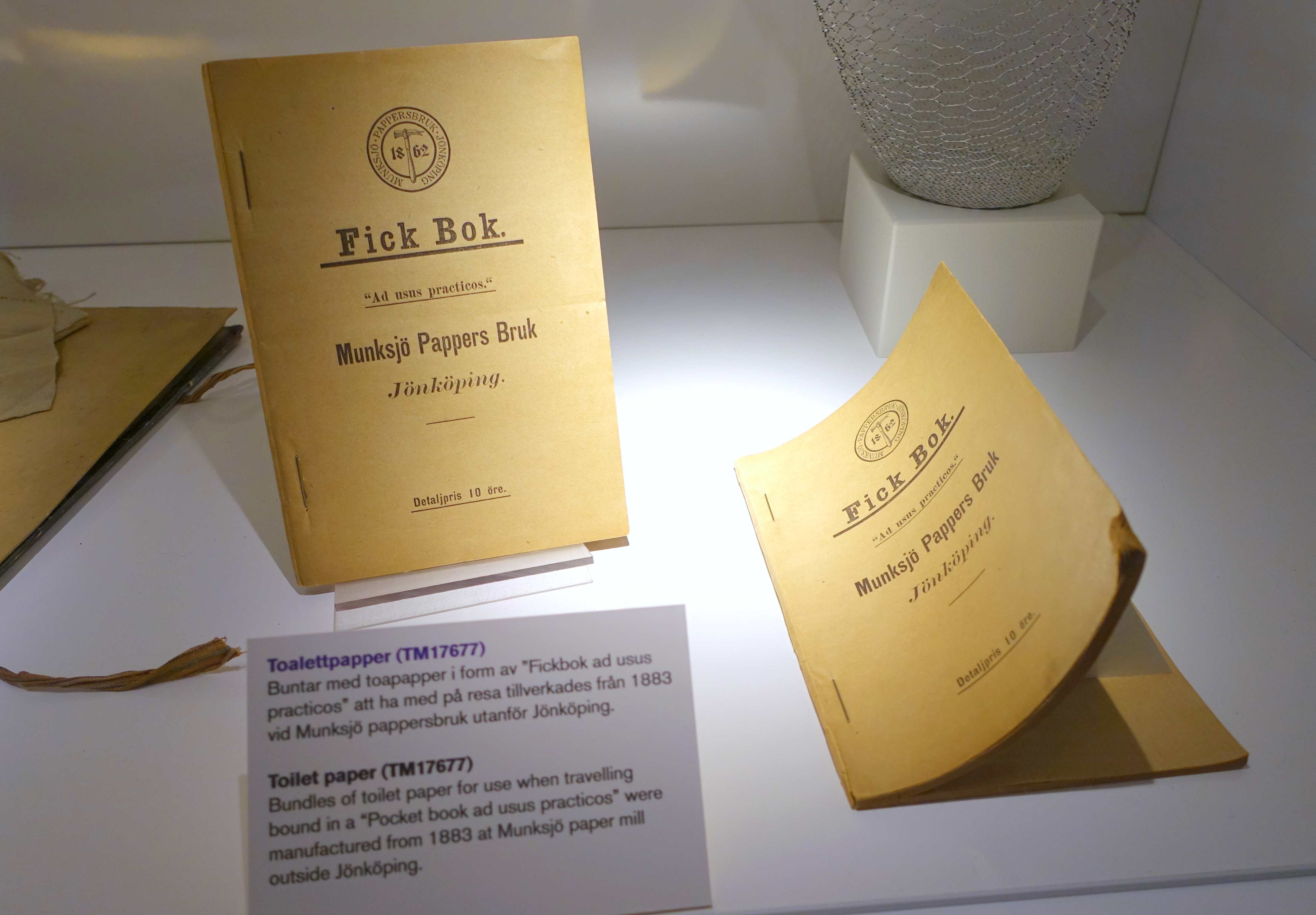 Exhibit in the Tekniska museet, Stockholm, Sweden. This work is old enough so that it is in the public domain.